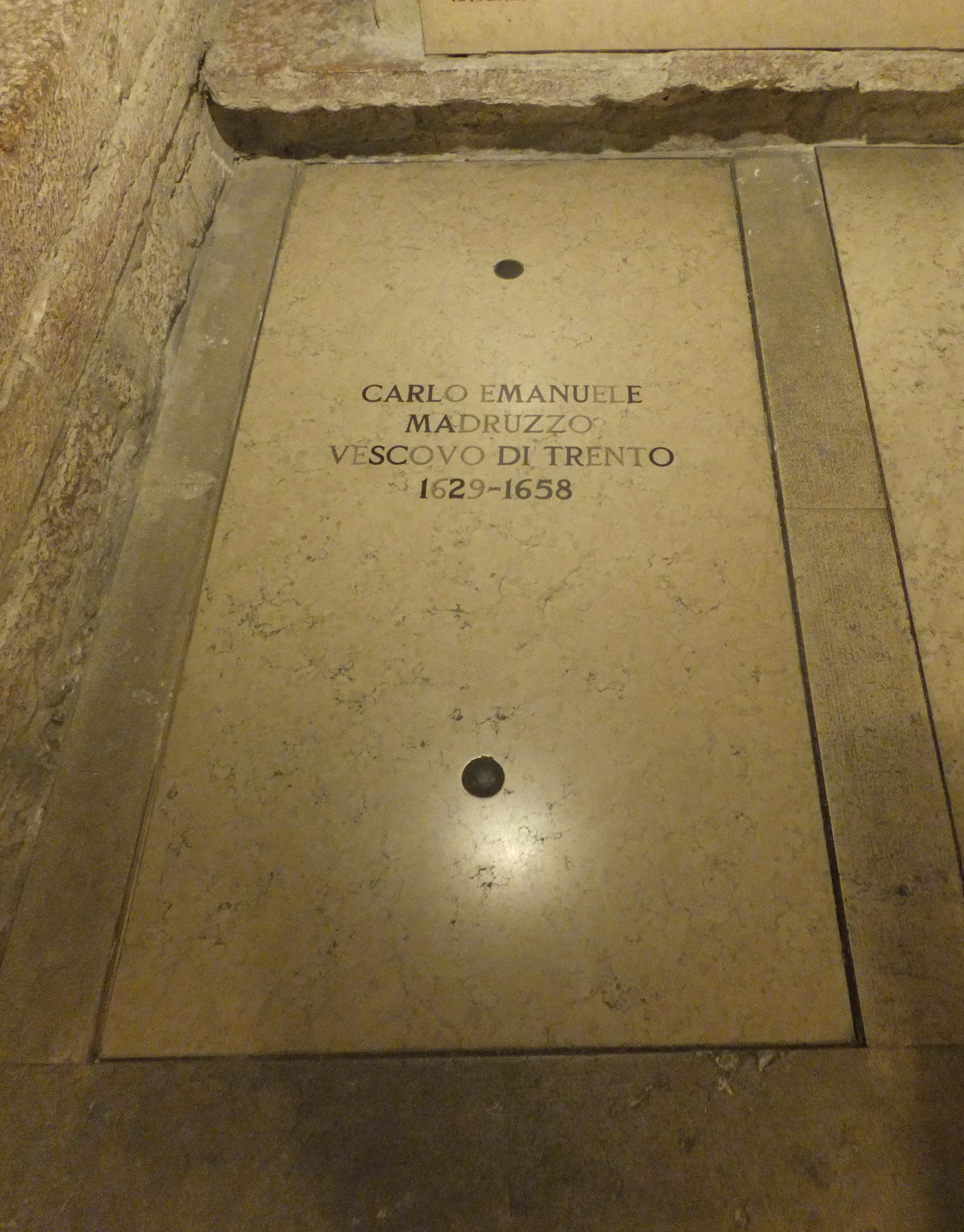 Trento, paleochristian basilica of saint Vigilius - Tomb of bishop Carlo Emanuele Madruzzo This is a photo of a monument which is part of cultural heritage of Italy.